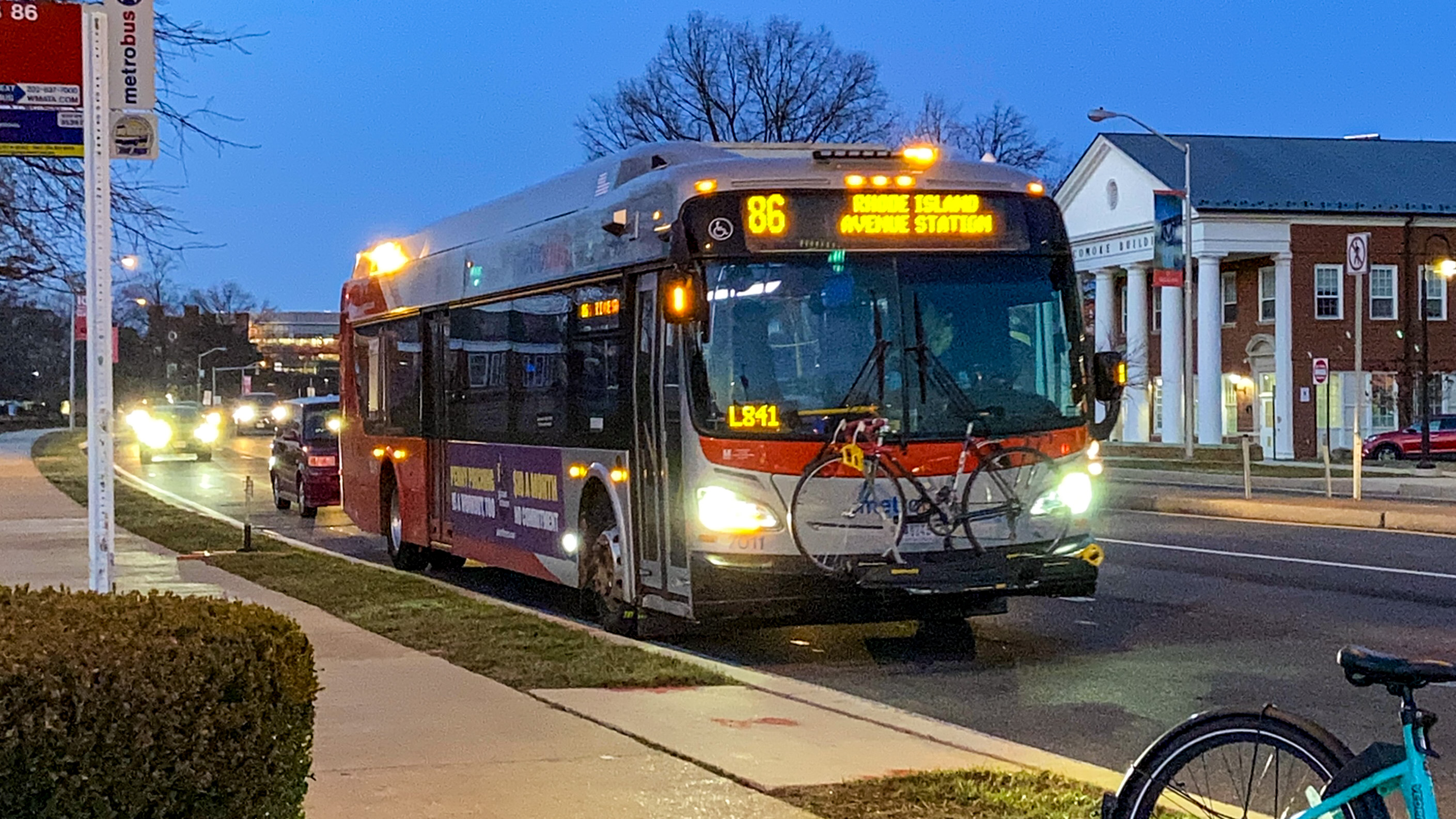 WMATA New Flyer XDE40 7011 on Route 86